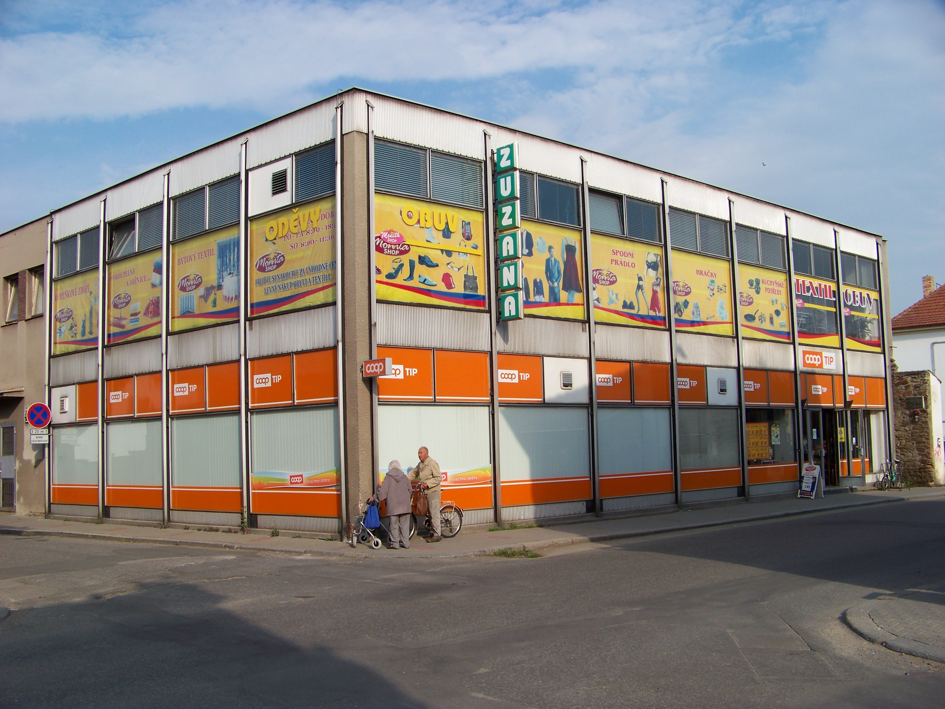 Bechyně, Tábor District, South Bohemian Region, the Czech Republic. Libušina and Dlouhá street, shopping centre Zuzana (Jednota – Coop).